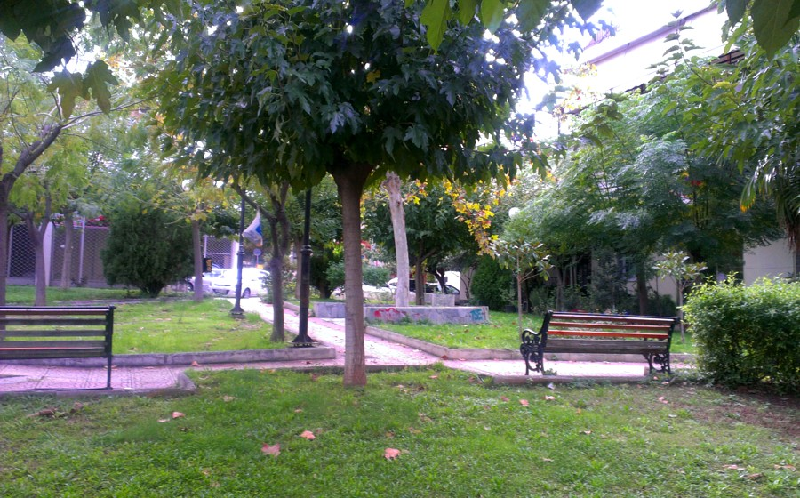 kipos